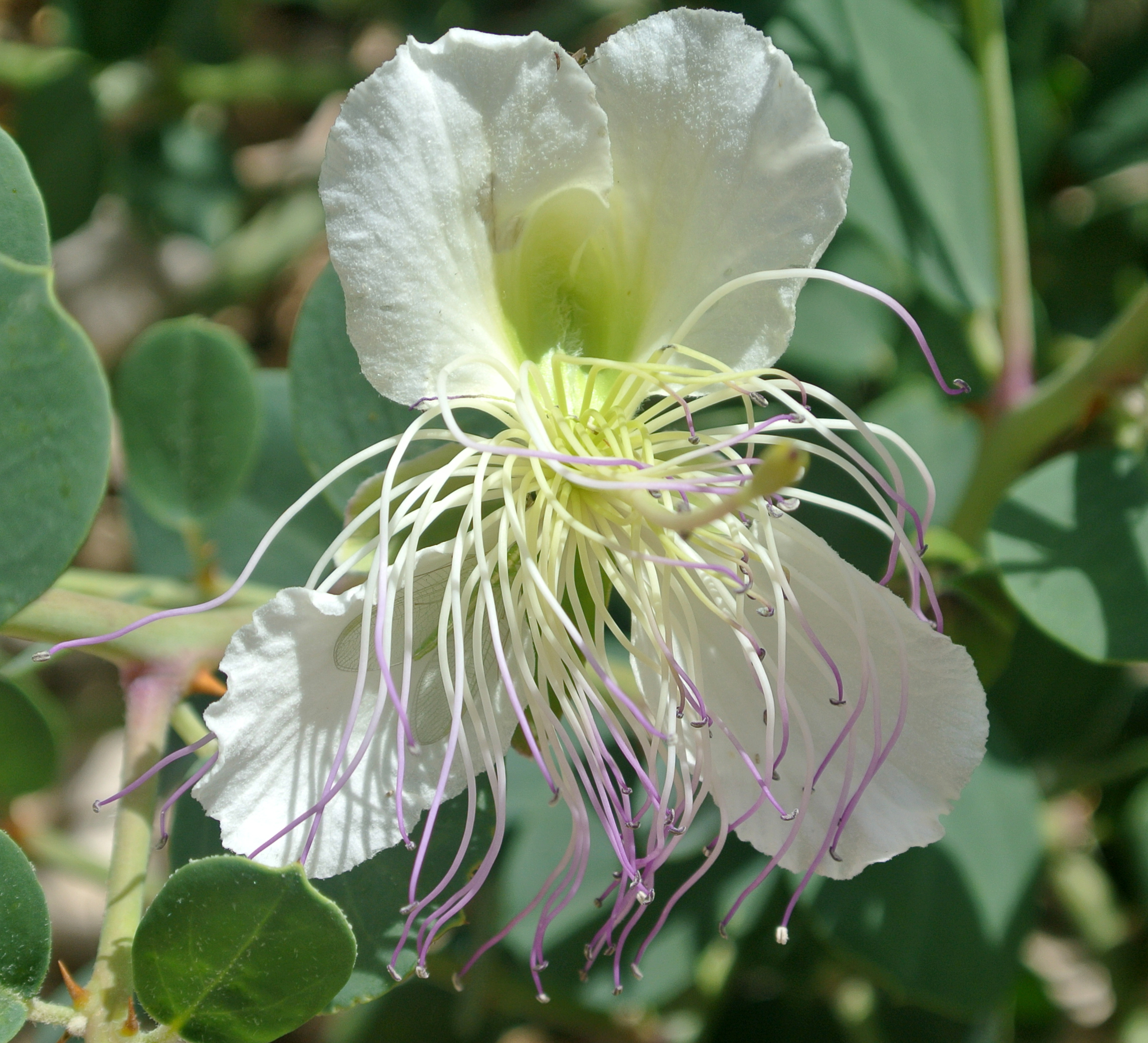 Thorny caper (Capparis spinosa) in Nahal Neqarot, southern Israel.